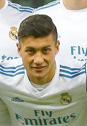 César Gelabert (11), Óscar Rodríguez Arnaiz (10)